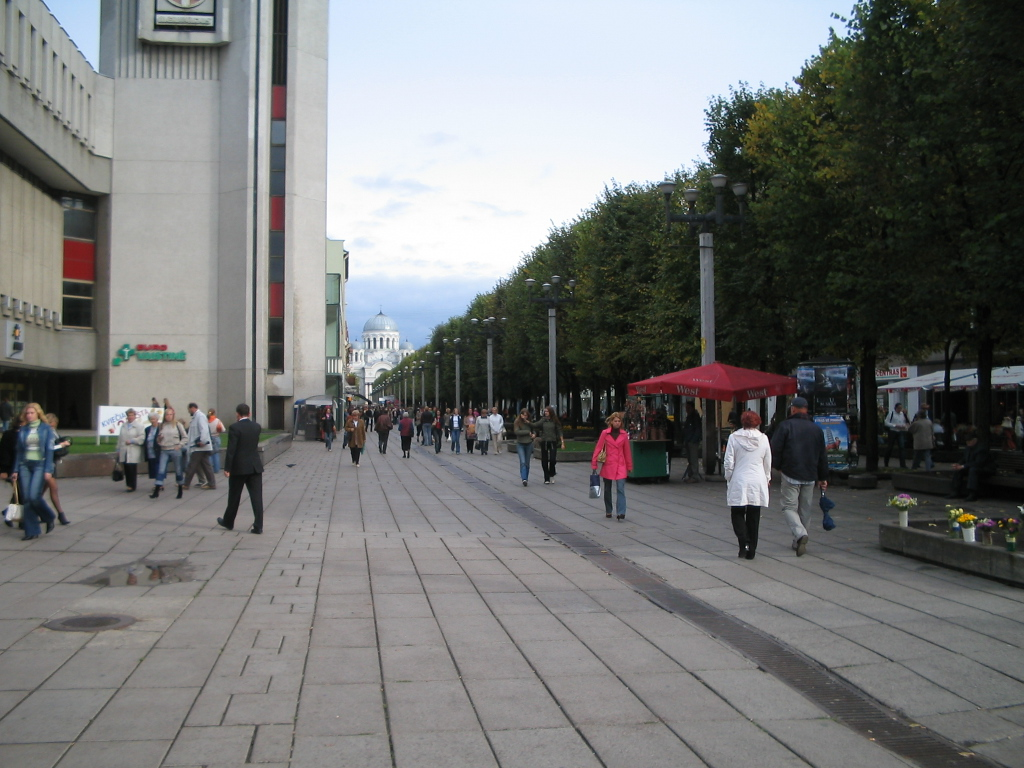 Middle of Liberty Avenue (East direction), (Lithuania).